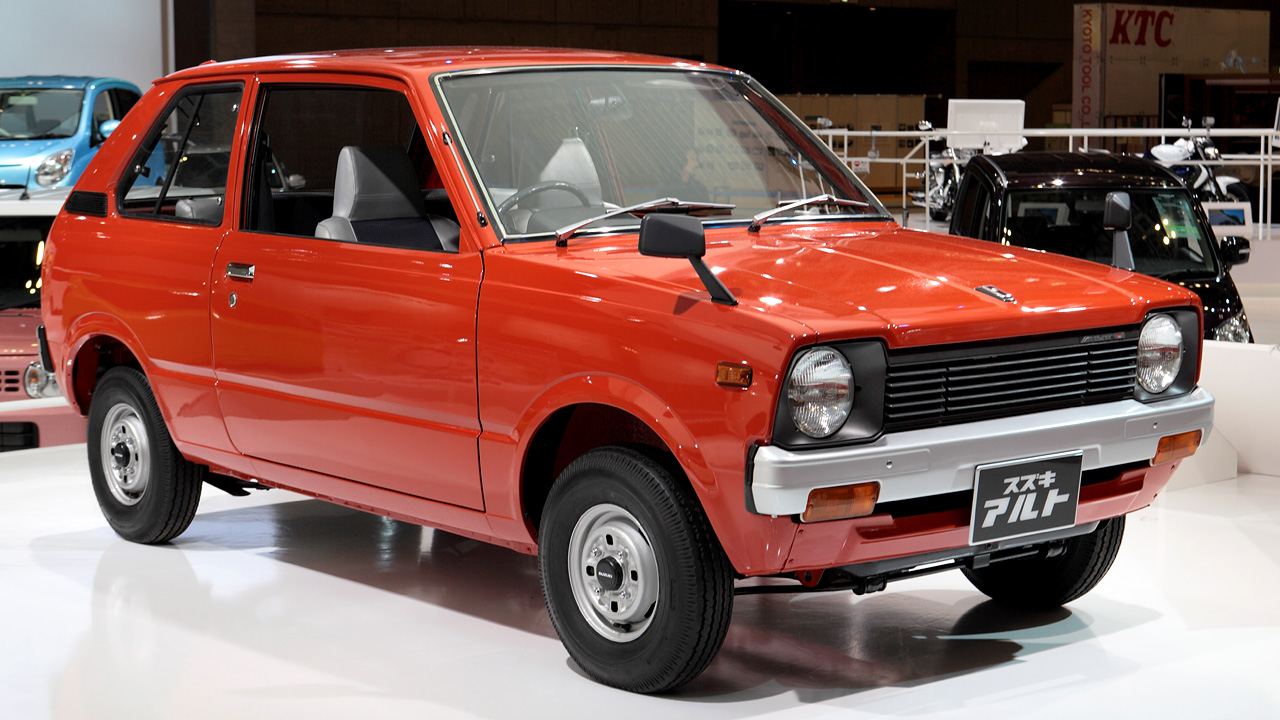 1979's the first generation Suzuki Alto, at the Tokyo Motor Show 2009.